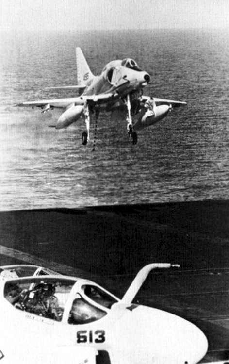 A U.S. Navy Douglas A-4E Skyhawk (BuNo 151195?) landing aboard the aircraft carrier USS Franklin D. Roosevelt (CVA-42) in October 1973. 36 Skyhawks were delivered to Israel from U.S. stocks during the Yom Kippur War to replace losses. Staging from Lajes, the aircraft were refueled by U.S. Air Force Boeing KC-135A tankers from Pease Air Force Base, New Hampshire (USA), and U.S. Navy tankers from the USS John F. Kennedy (CVA-67) west of the Strait of Gibraltar. They then flew on to the Franklin D. Roosevelt southeast of Sicily where they stayed overnight, then continued on to Israel refueling once more from tankers launched from the USS Independence (CVA-62) south of Crete.